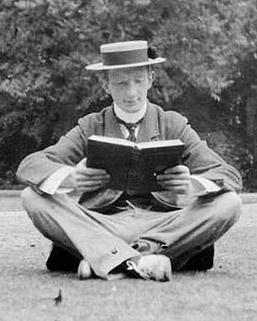 Cropped version of File:William_Beveridge_at_Balliol,_1898.jpg